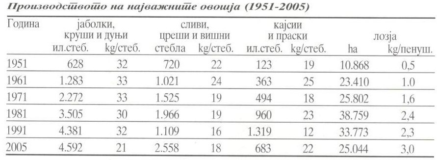 Production of fruit in Macedonia between 1951 and 2005